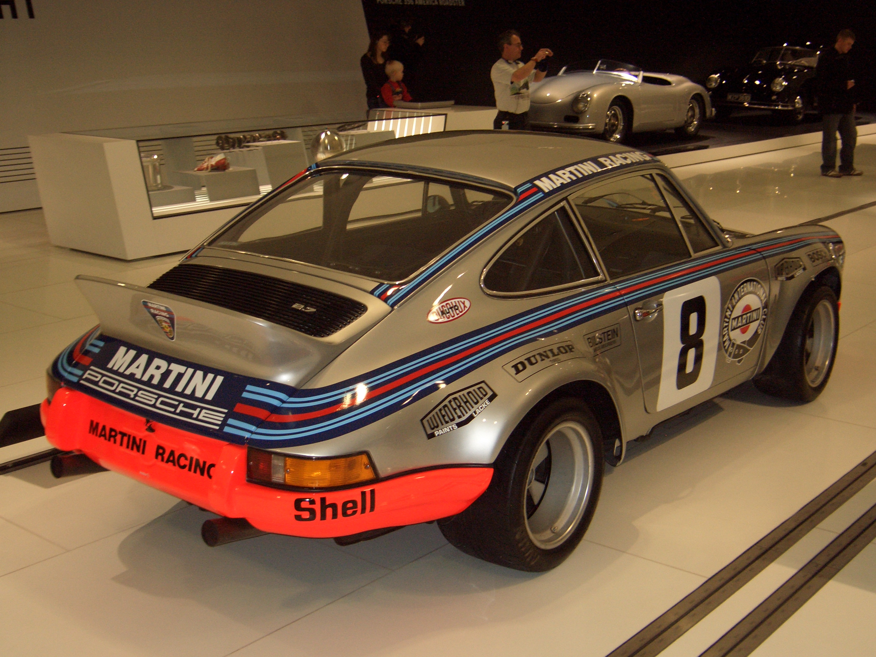 see filename for despcription - seen at PORSCHE MUSEUM in Stuttgart, Germany